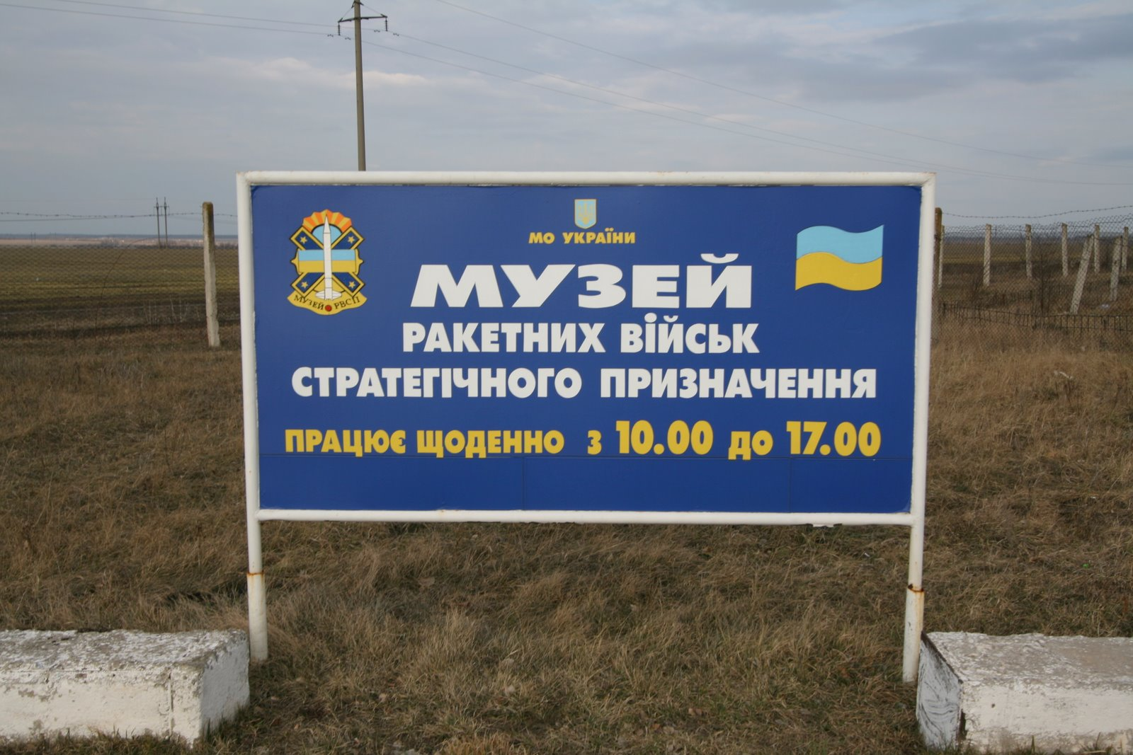 The Strategic Missile Forces Museum in Ukraine.